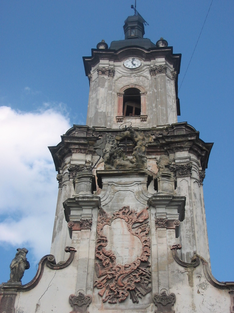 The tower in Buchach, Ukraine